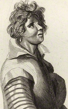 A line engraving of Thomas Bates made by Adam, published 1 April 1794.